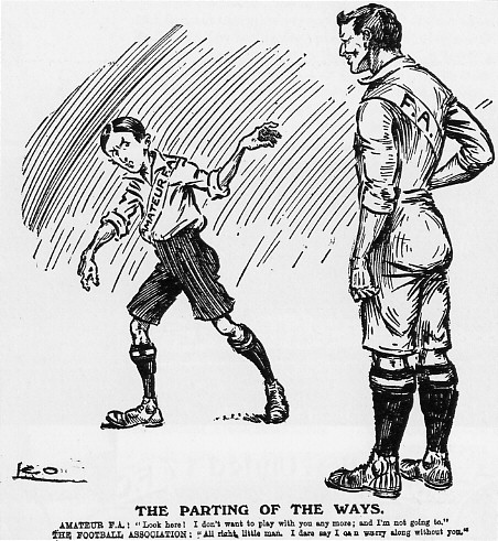 Drawing representing split between the Amateur Football Association and The Football Association in the UK.